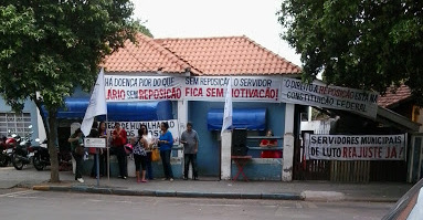 Cartazes colocados no Sisema (Sindicato dos Servidores Municipais de Araçatuba) antes do início de ato que culminou em greve em 7 de novembro de 2015.